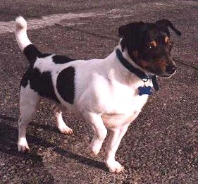 Nina Butorac, her dog Duncan. Own photo.